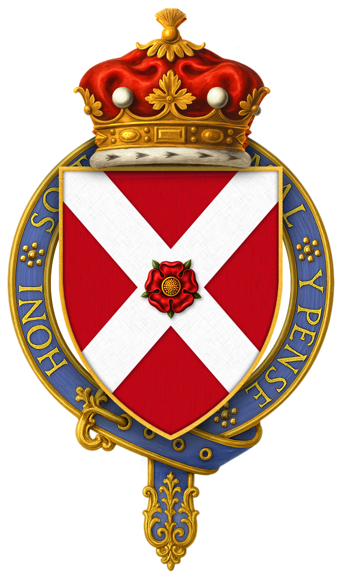 Coat of arms of John Nevill, 5th Marquess of Abergavenny - Gules on a saltire argent charged with a rose of the field, barbed and seeded proper.